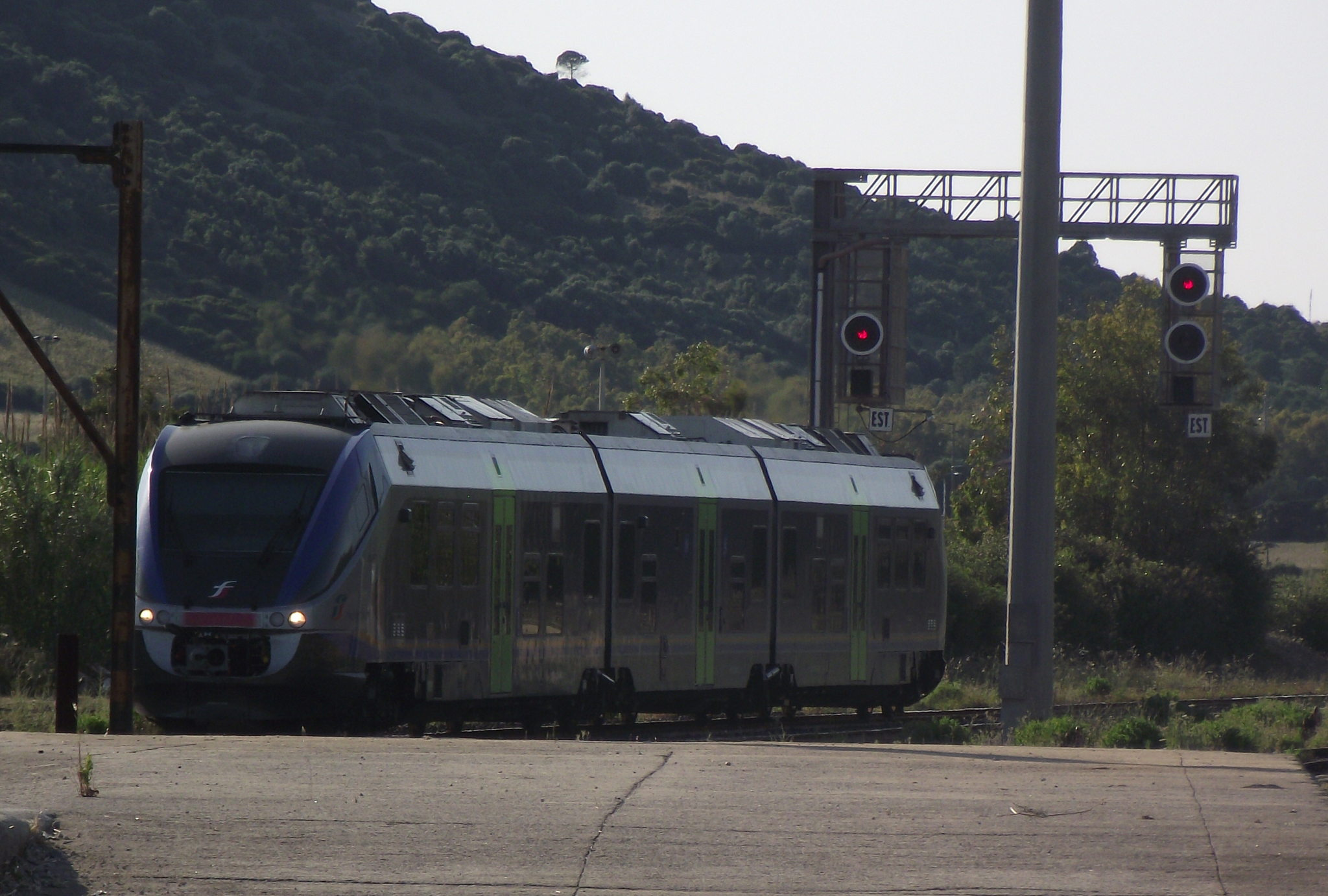 Minuetto diesel train (ALn 501-502) of Trenitalia, with DTR livery, passing inside the Carbonia Stato station, Sardinia, Italy